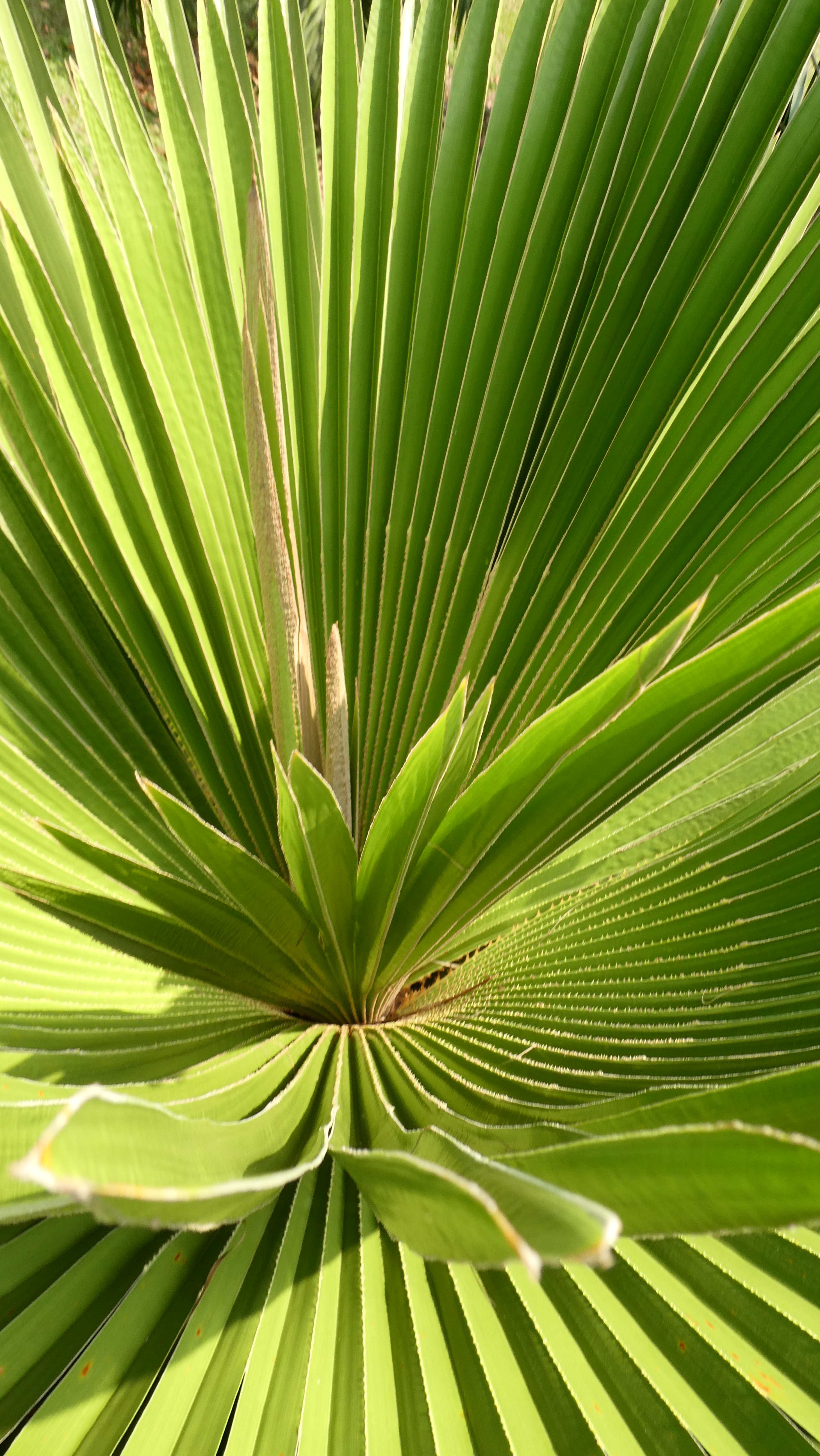 Copernicia macroglossa at the Singapore Botanical Garden